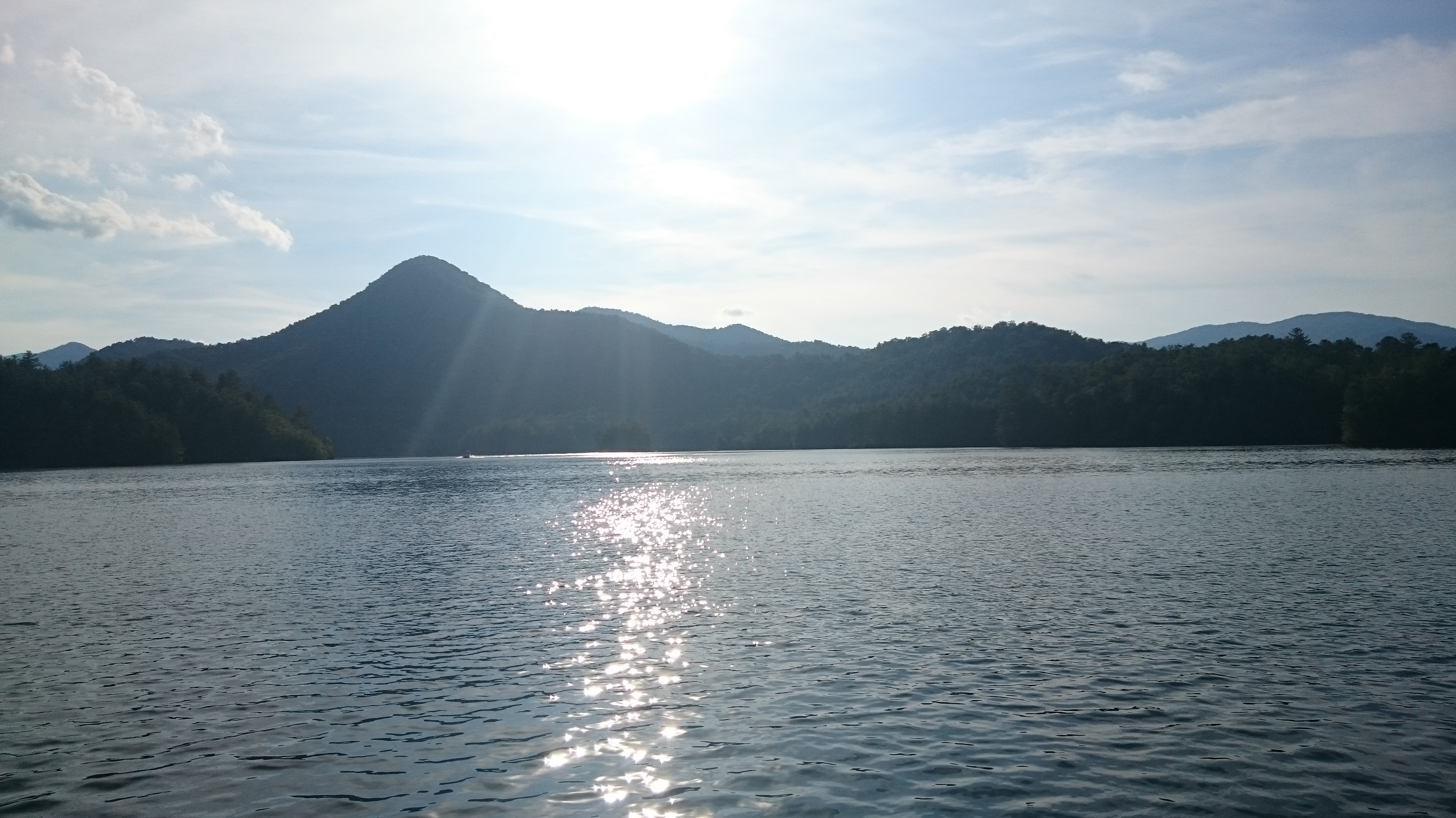 Sunny Day on Lake Santeetlah